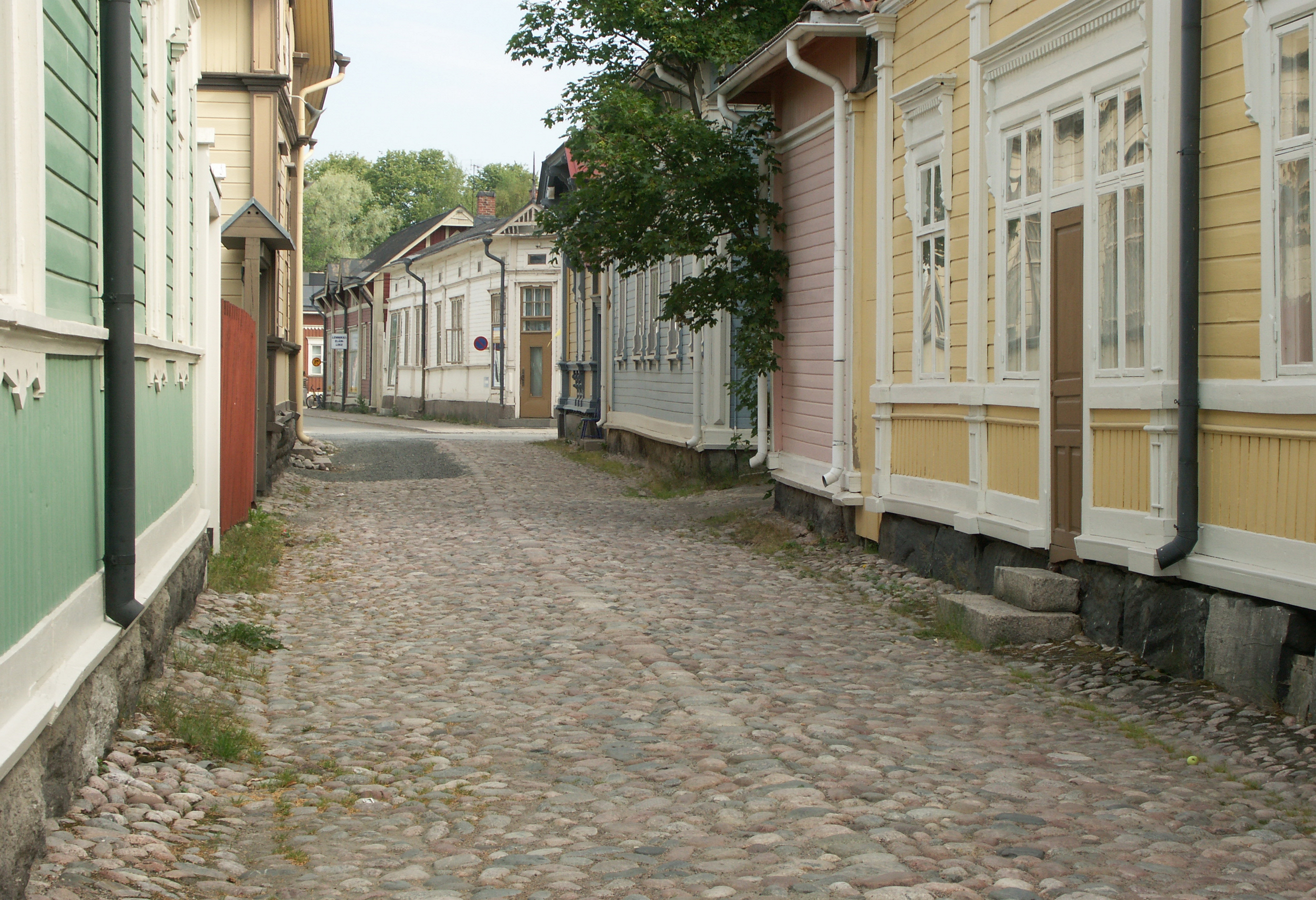 Houses in Rauma, Finland